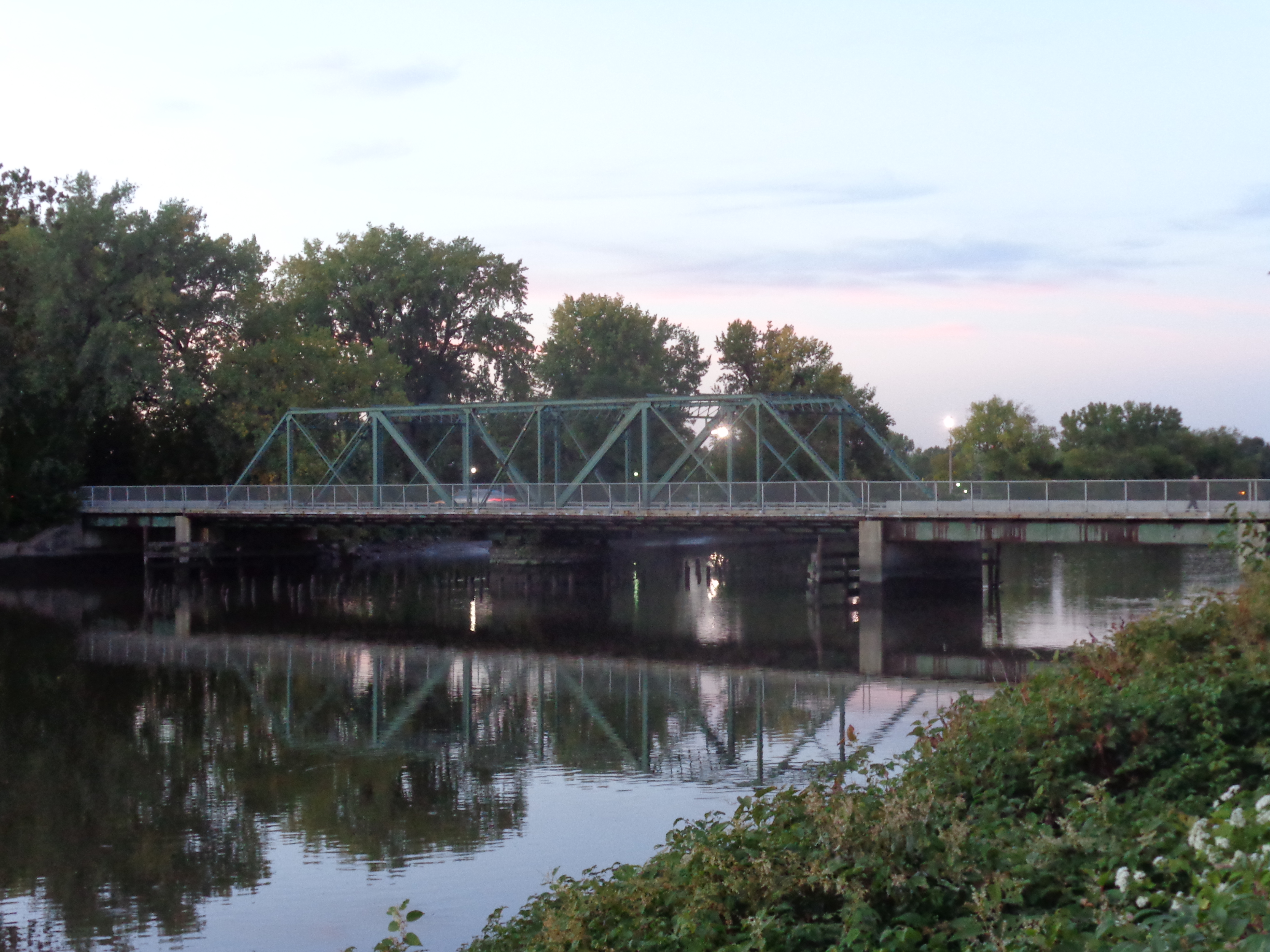 Midtown Bridge aka Salem Street Bridge designated McCayan Memorial Bridge over Hackensack River formerly Public Service Railway